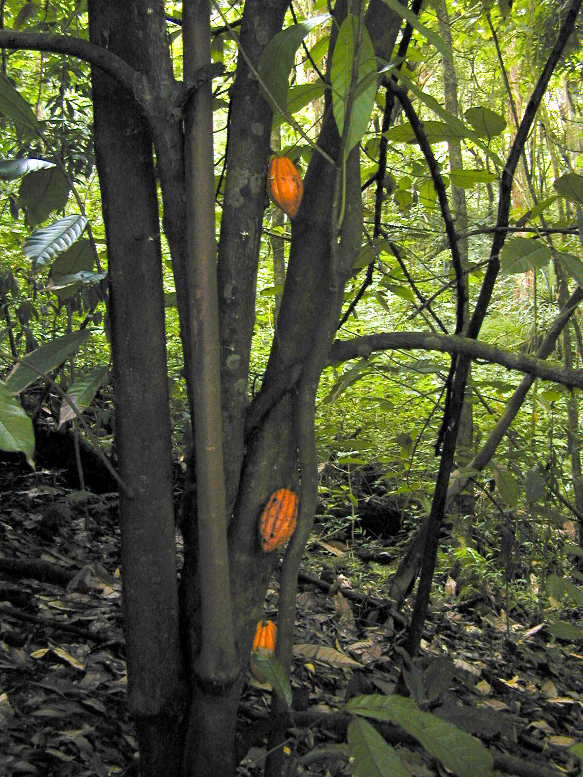 Theobroma cacao (fruits). Location: Maui, Hana Hwy